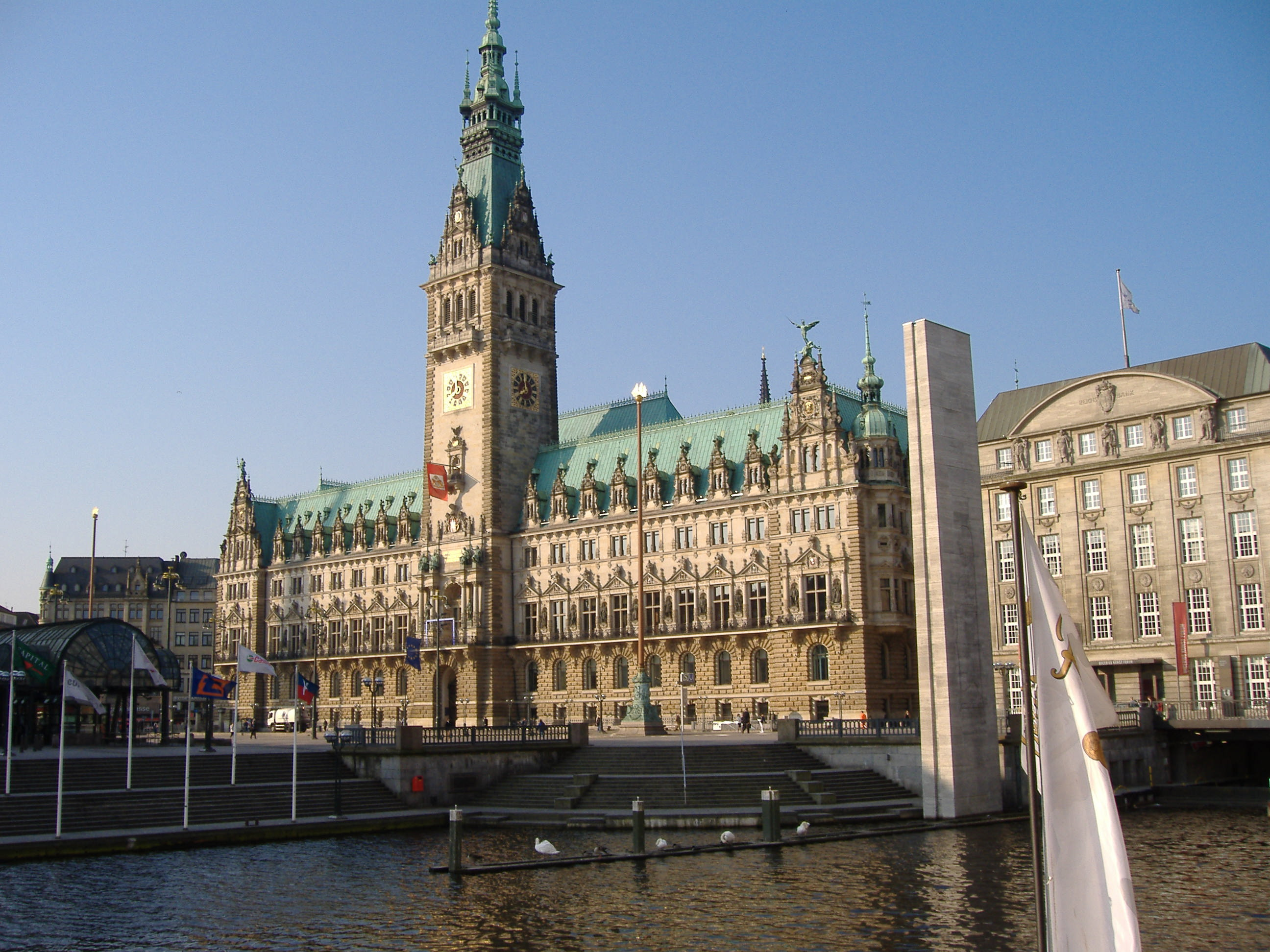 The city hall of Hamburg, Germany.